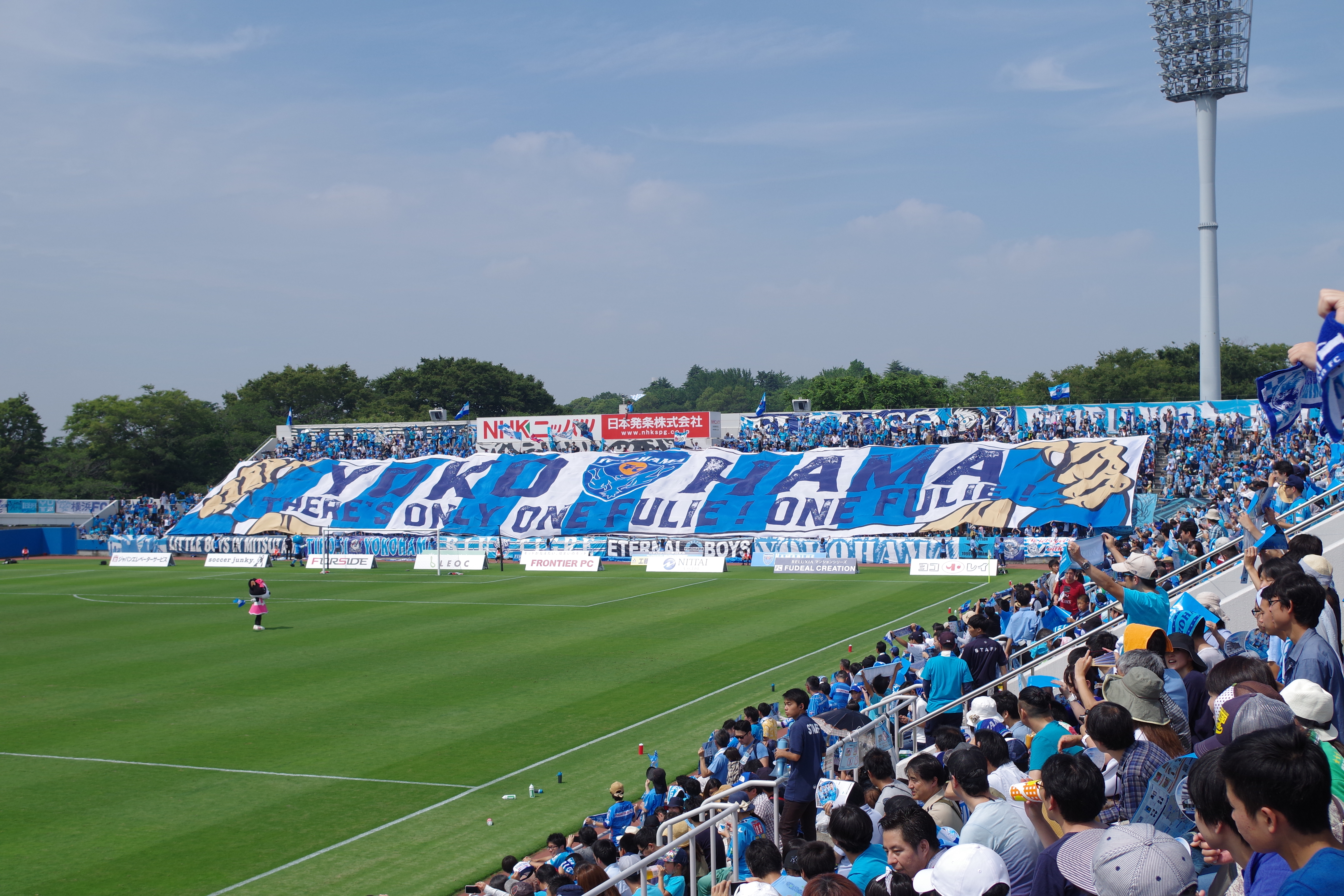 YokohamaFC cheearing Paformance.